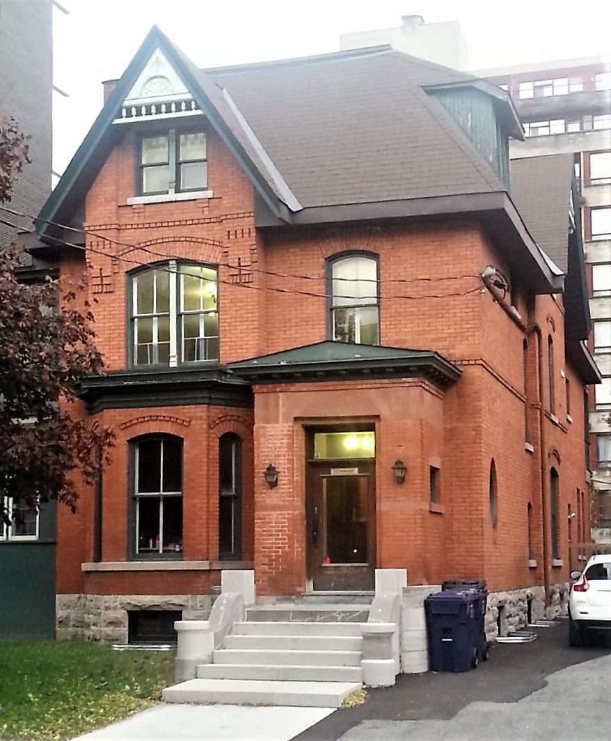 Head Office of the Royal Society of Canada, 282 Somerset Street West, Ottawa